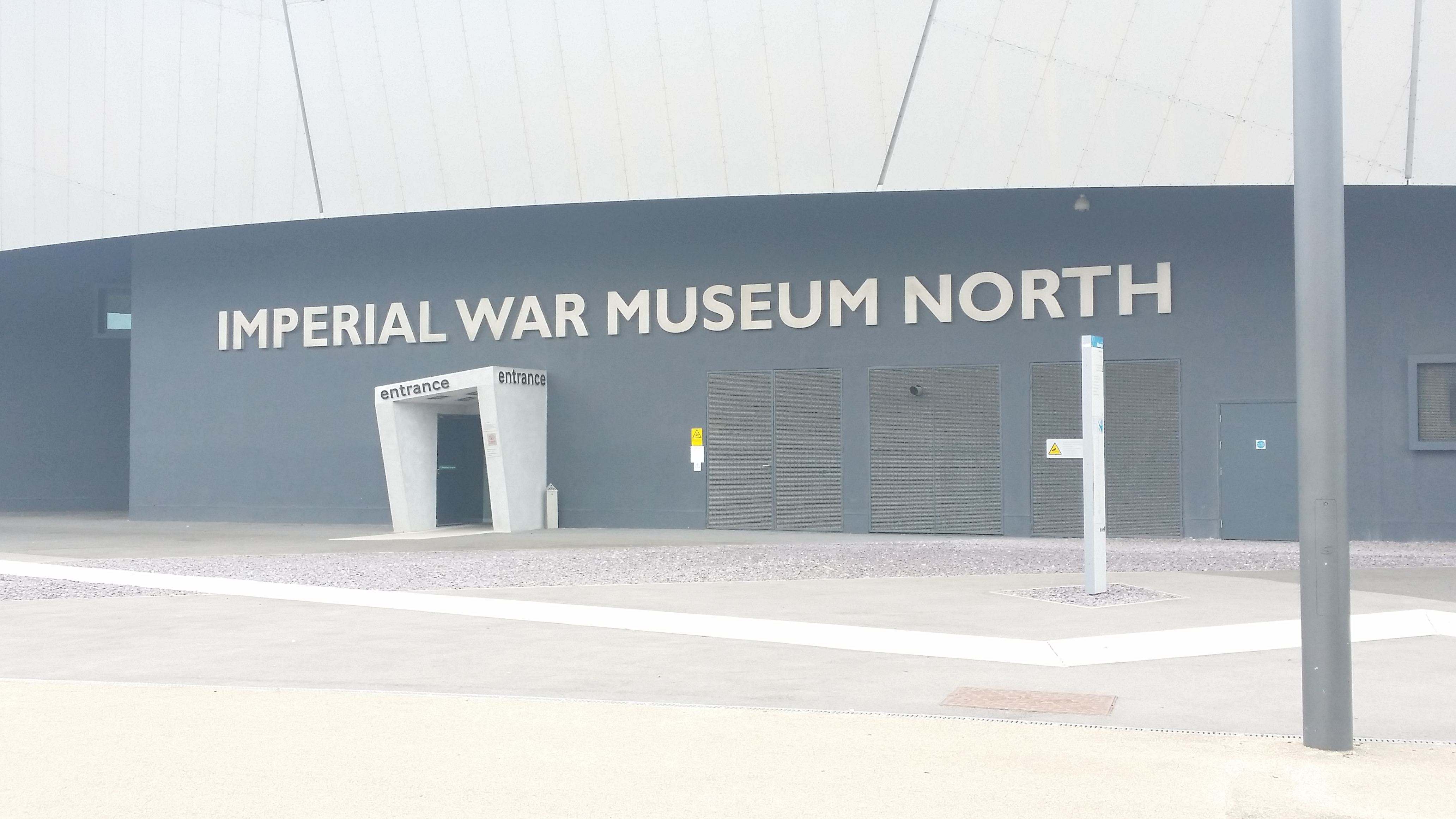 Imperial War Museum North is located in Manchester City.